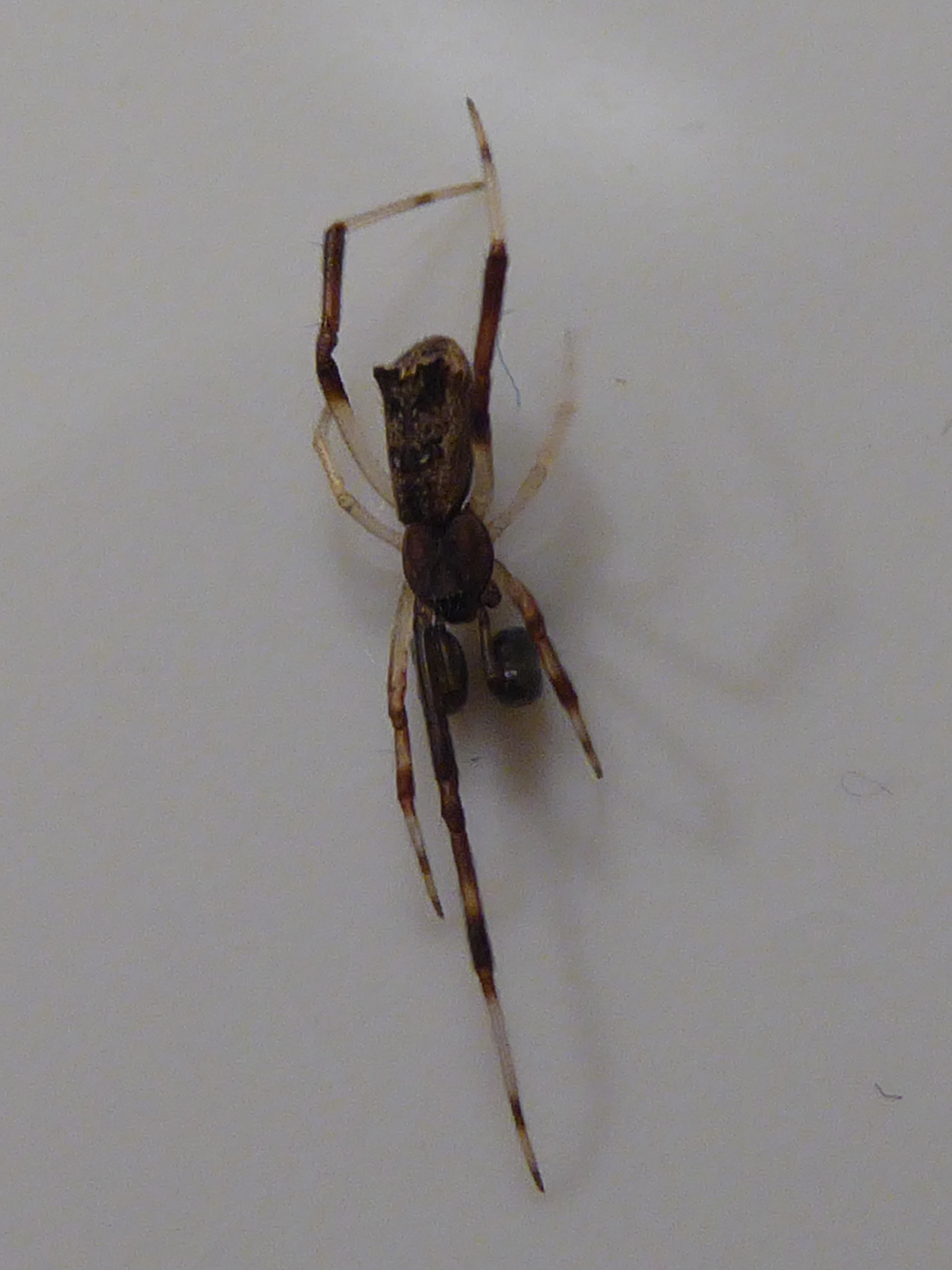 Male Episinus truncatus photographed in Piazzo (Segonzano, Trentino, Italy)